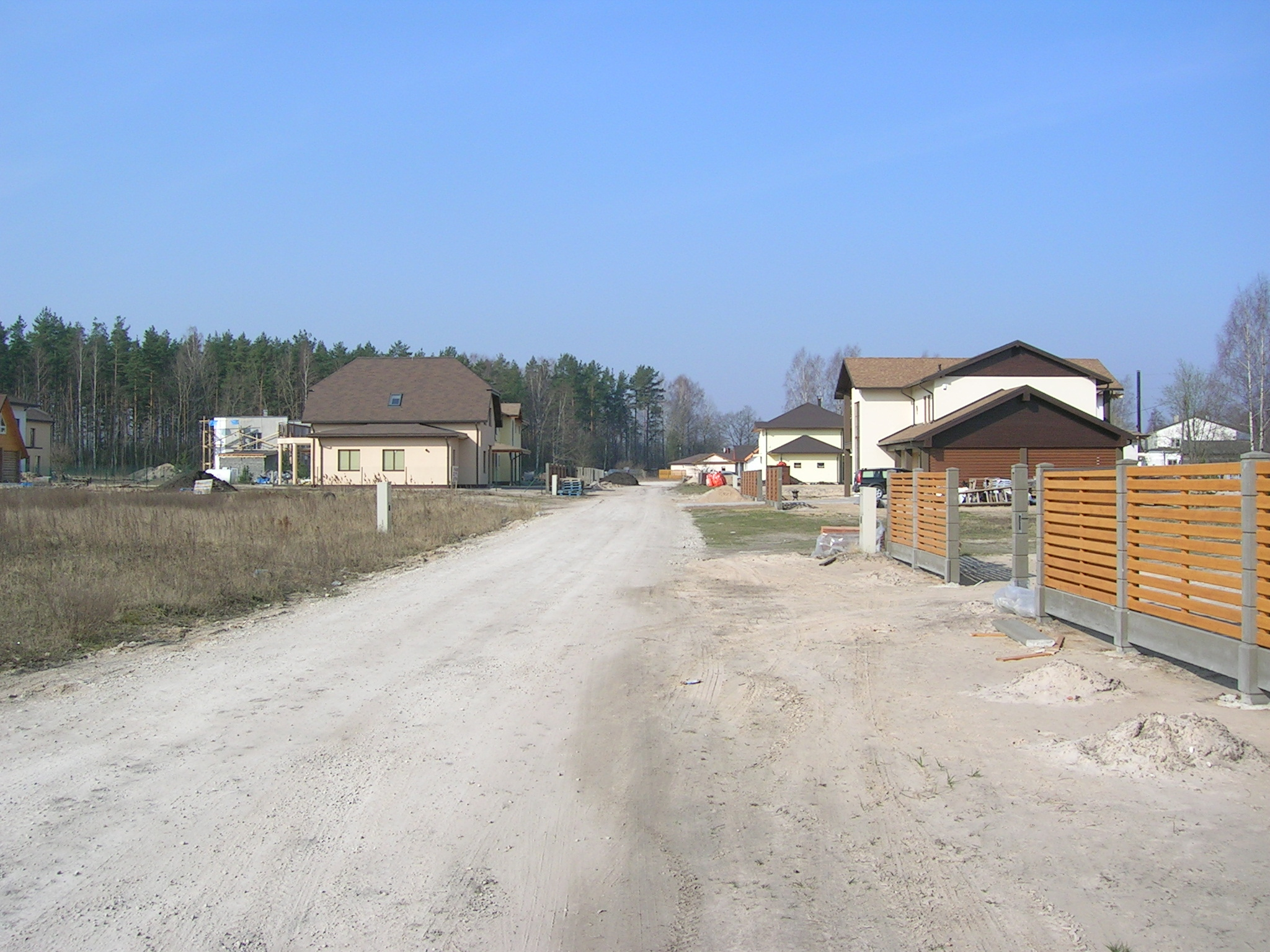 Dzilnuciems, Kungu Street